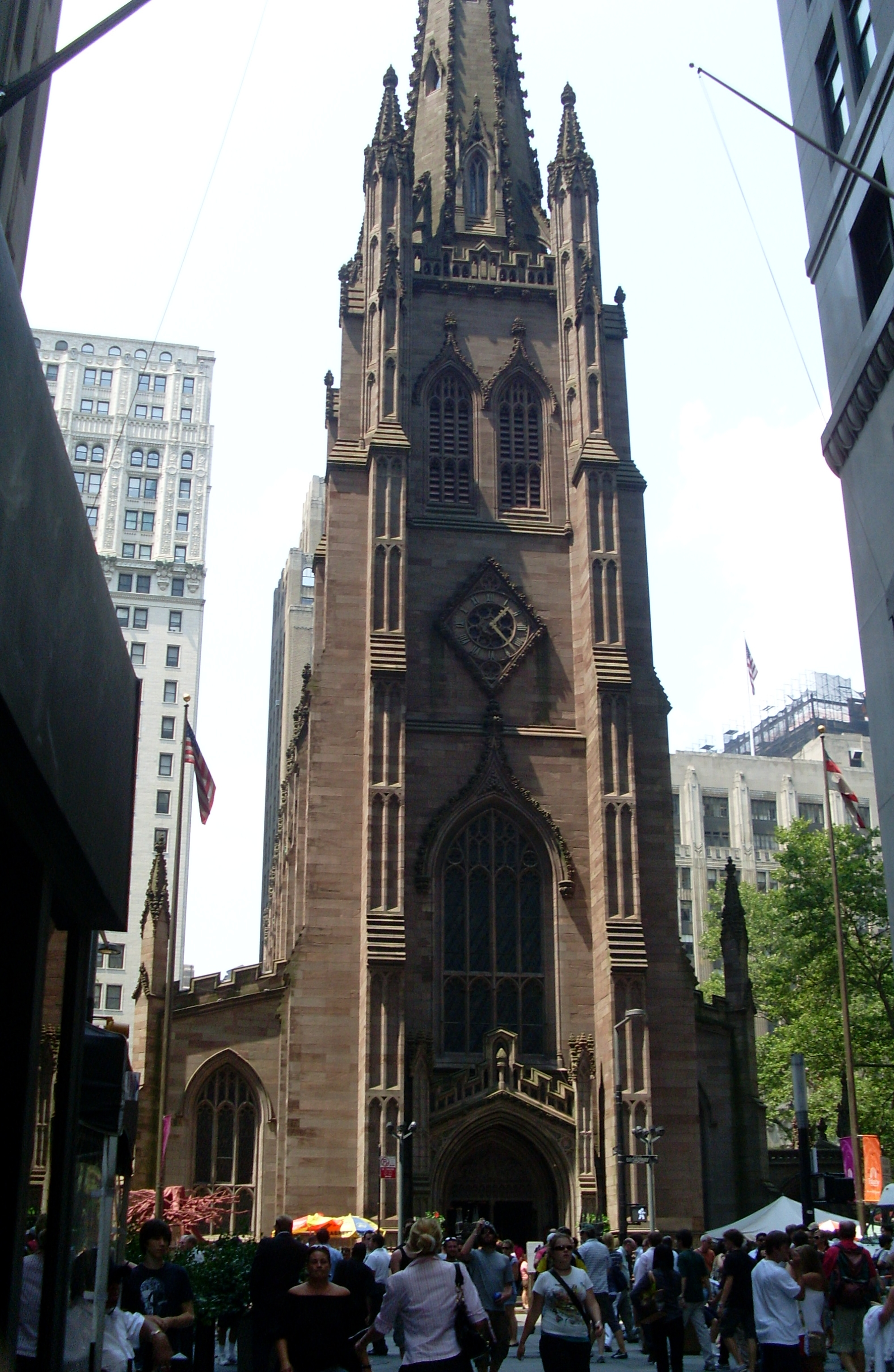 Trinity Church, Wall Street, New York City